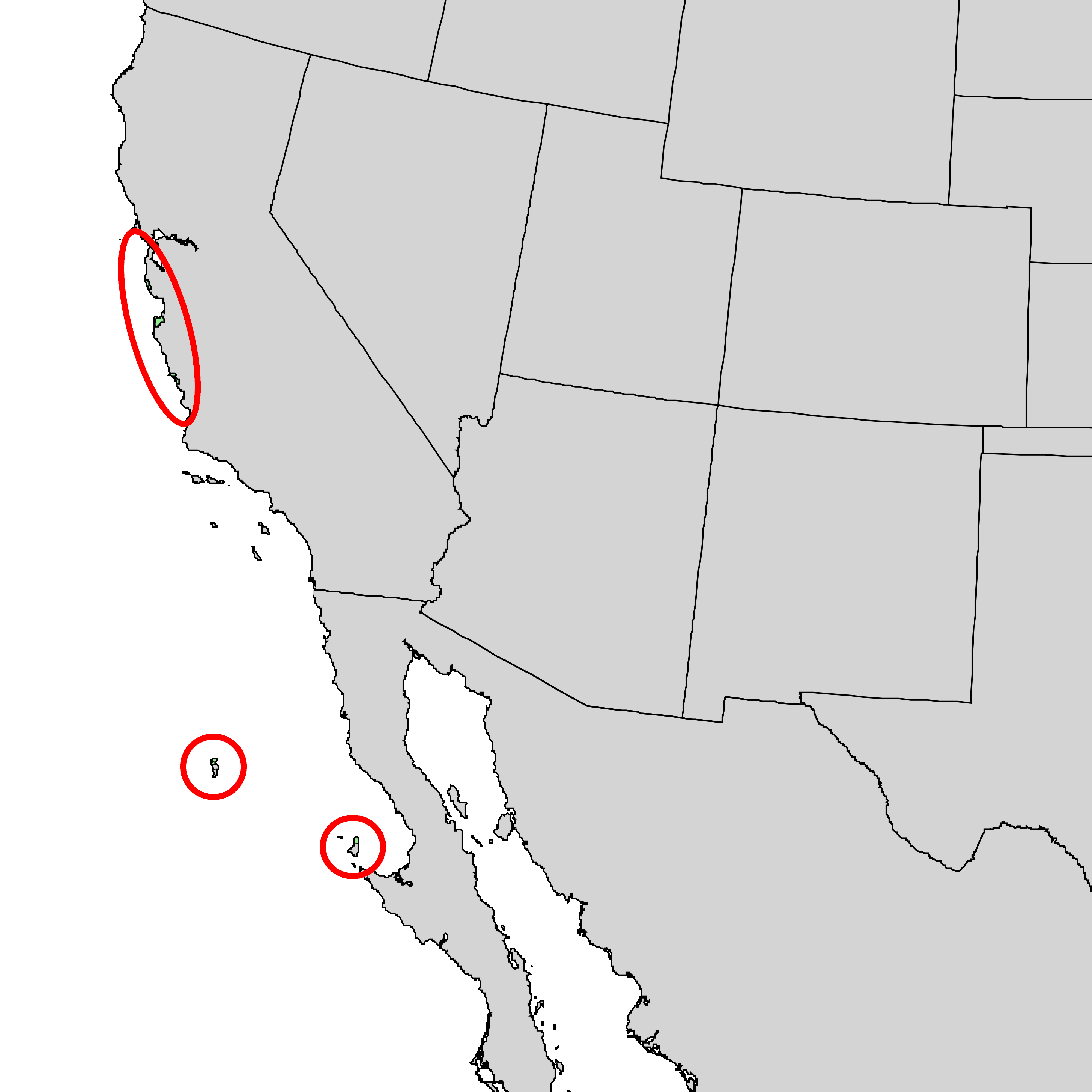 Natural distribution map for Pinus radiata